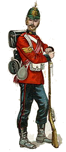 Sergeant of the Somersetshire Light Infantry in campaign uniform, 1898.